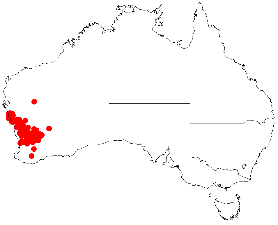 Acacia restiacea occurrence data from Australasian Virtual Herbarium downloaded from on December 8 2018